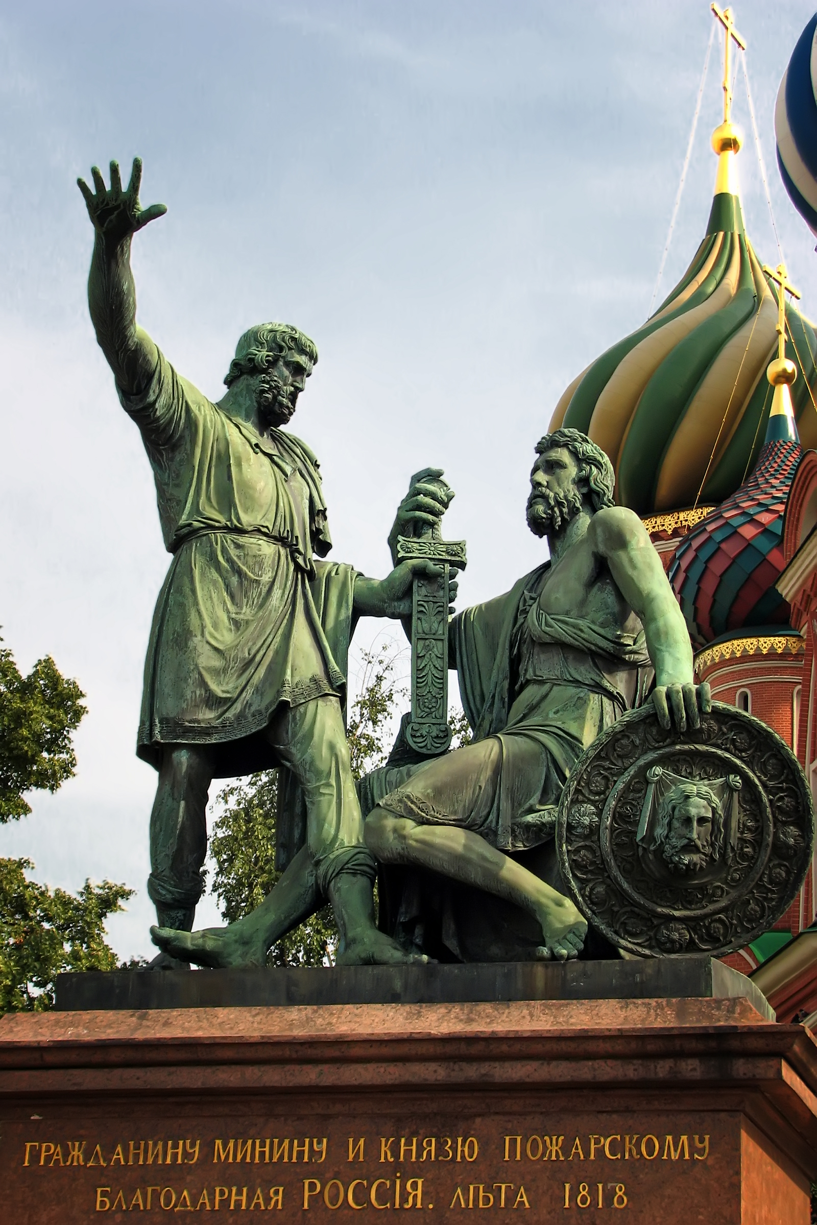 Monument to Minin and Pozharsky is a bronze statue on Red Square of Moscow, Russia in front of Saint Basil's Cathedral.